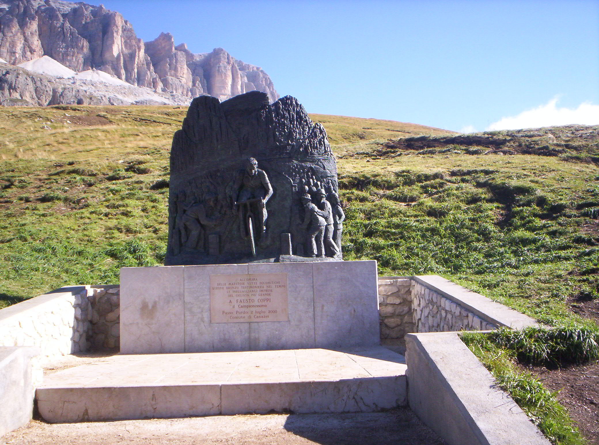 memorial monument of Fausto Coppi at Passo Pordoi, Italy. Photo by User:FG42